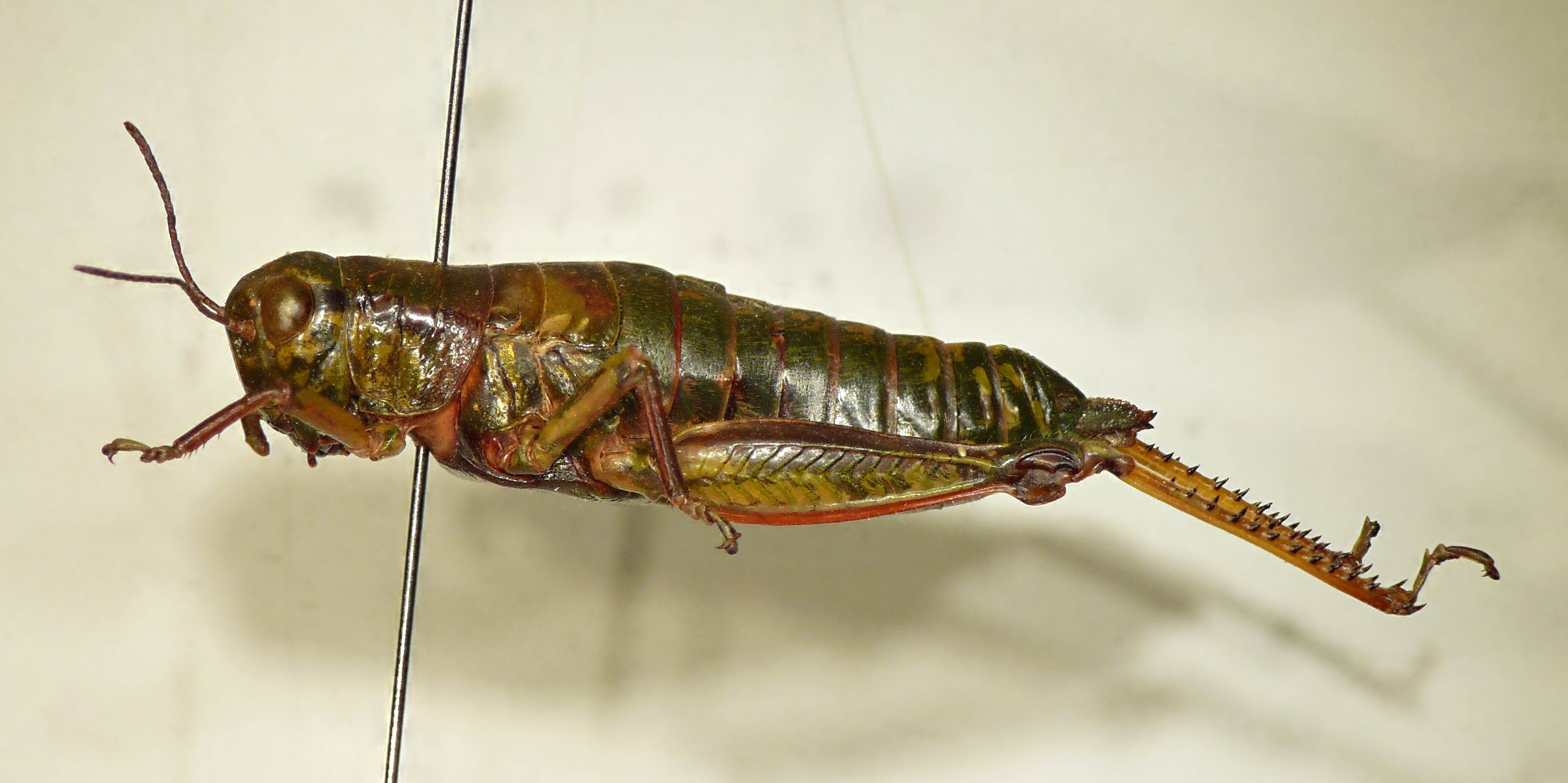 Female Chortopodisma cobellii Zoologische Staatssammlung München This picture was taken by Wikipedians in Zoologische Staatssammlung München (ZSM). The specimen belongs to the collections of ZSM.